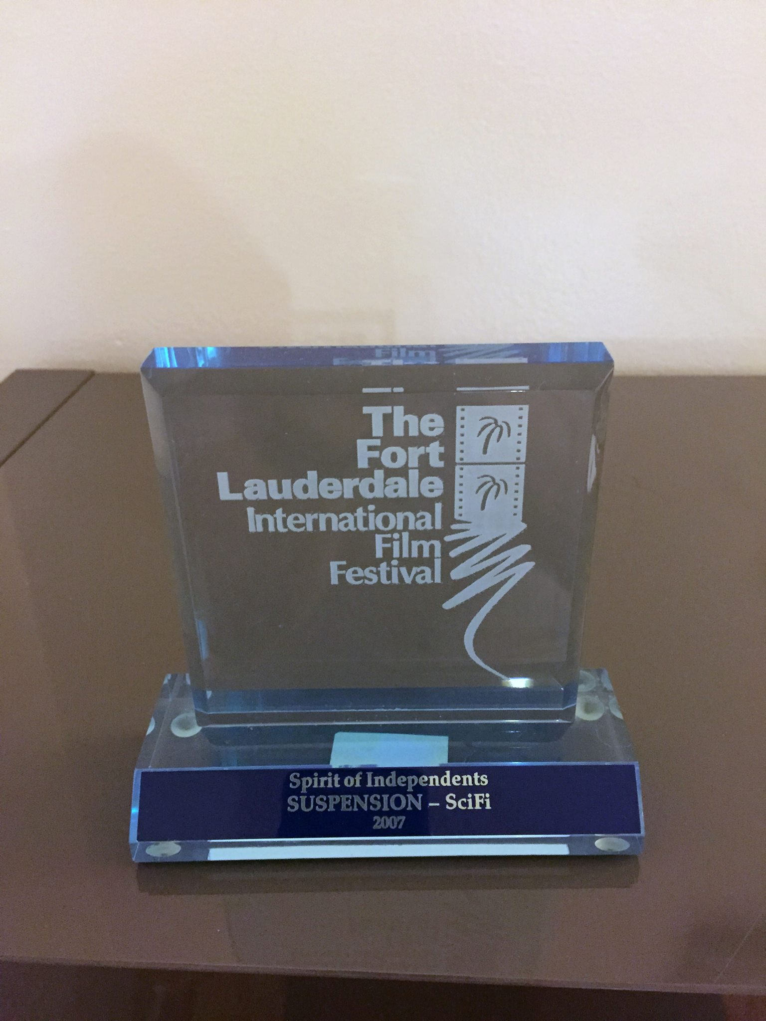 This is a photograph of the Ft Lauderdale Film Festival Spirit of the Independents Award presented to the producers of the Independent Film "Suspension" (2008) Other information This photo is to provide proof of the award presented to the producers of the film Suspension (2008)